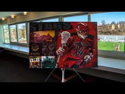 Stephen Holland artwork at Fairfield University's Rafferty Stadium